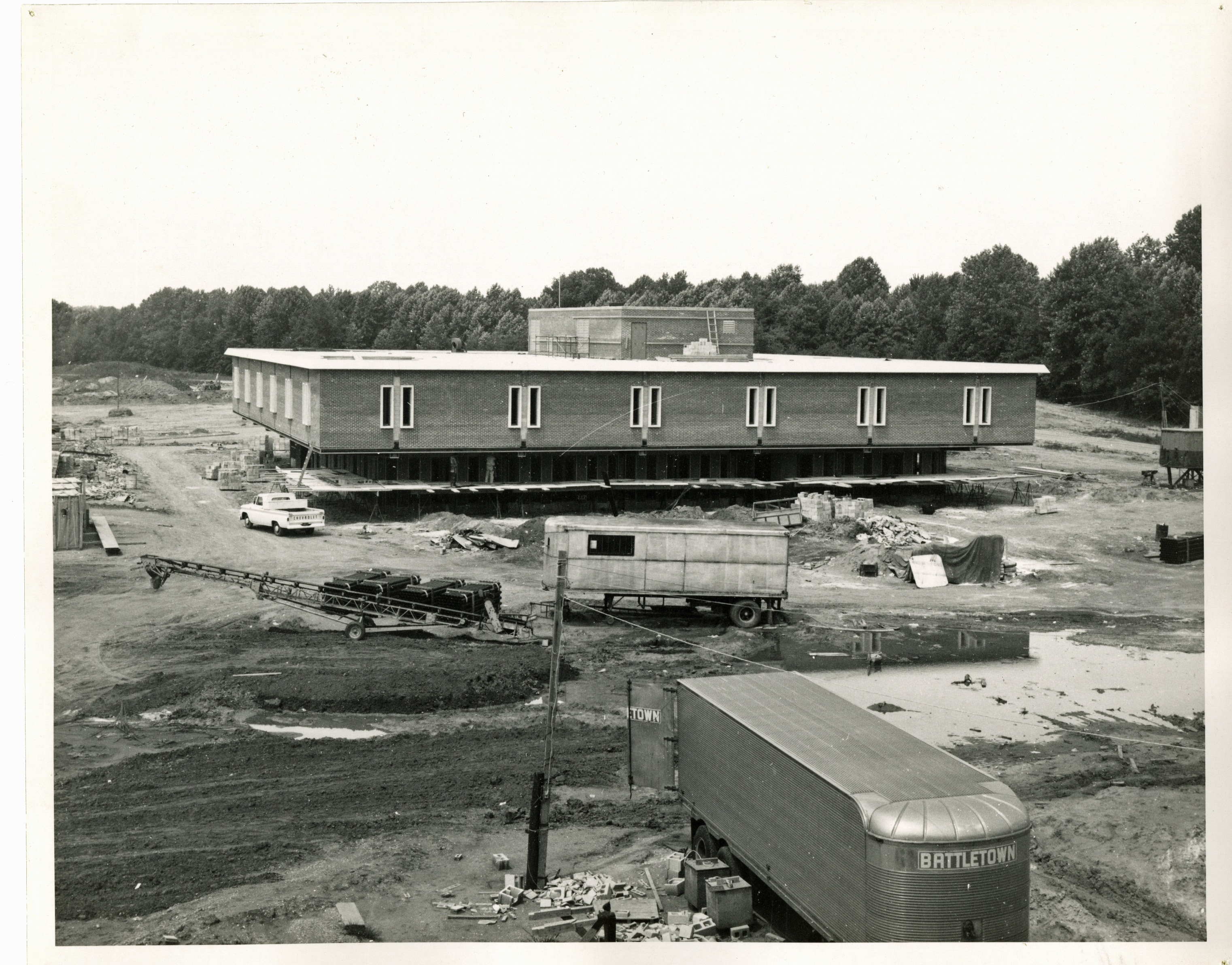 Kent Hall Construction